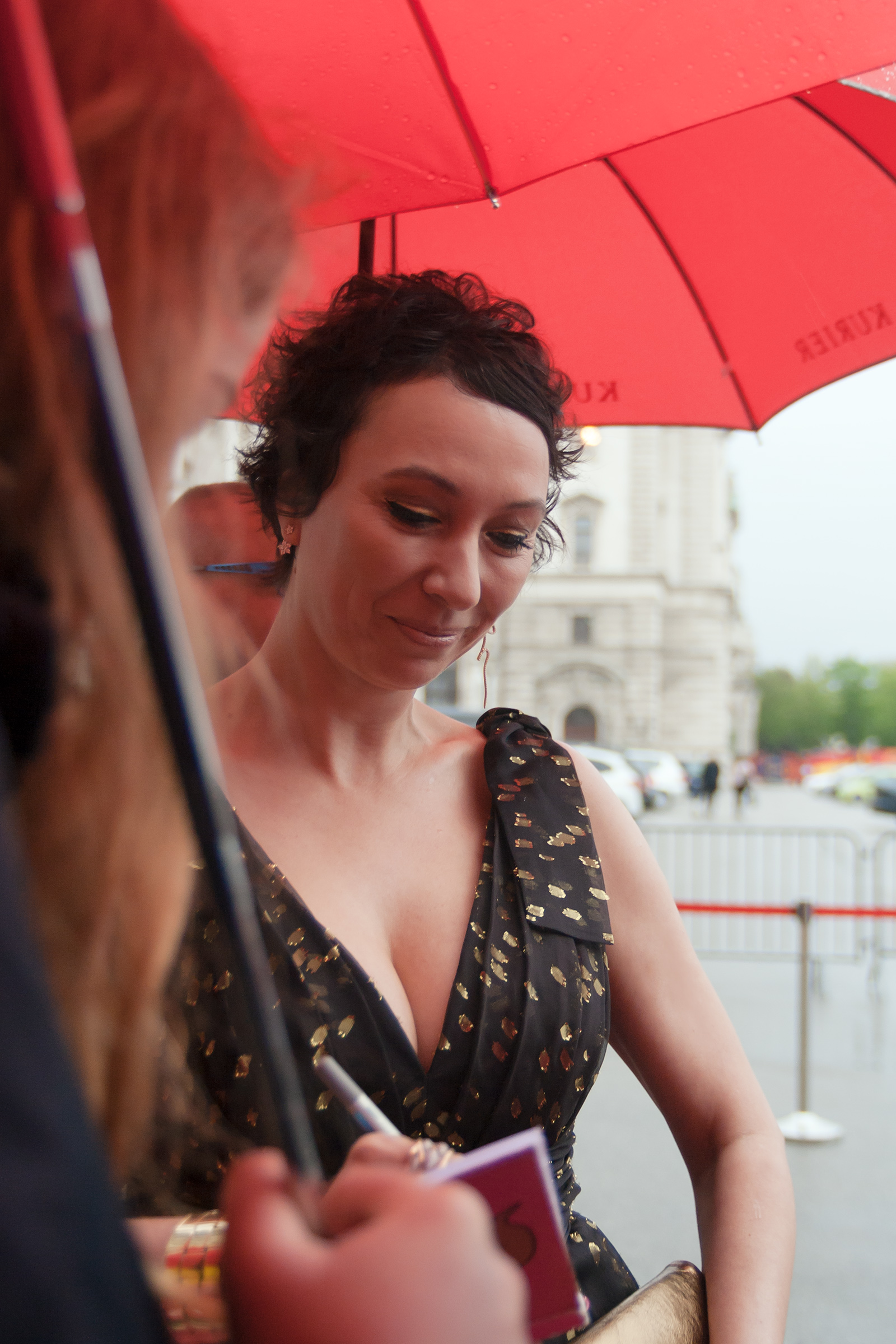 Ursula Strauss on the red carpet of the Romy TV awards 2017 at Hofburg Palace in Vienna, Austria.